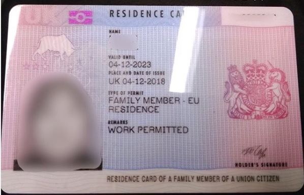 Residence Permit card for Ukraine citizen living in the UK